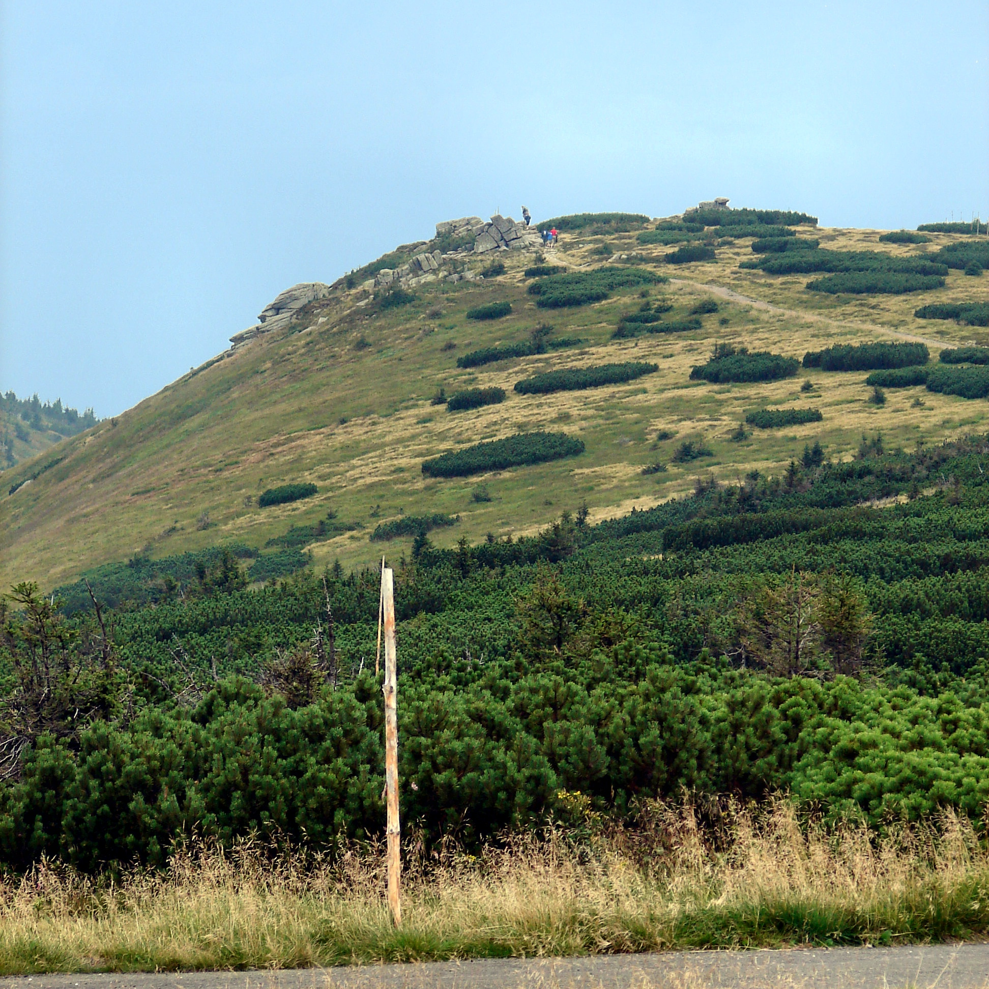 Harrachovy kameny in the Giant Mountains (Krkonoše)